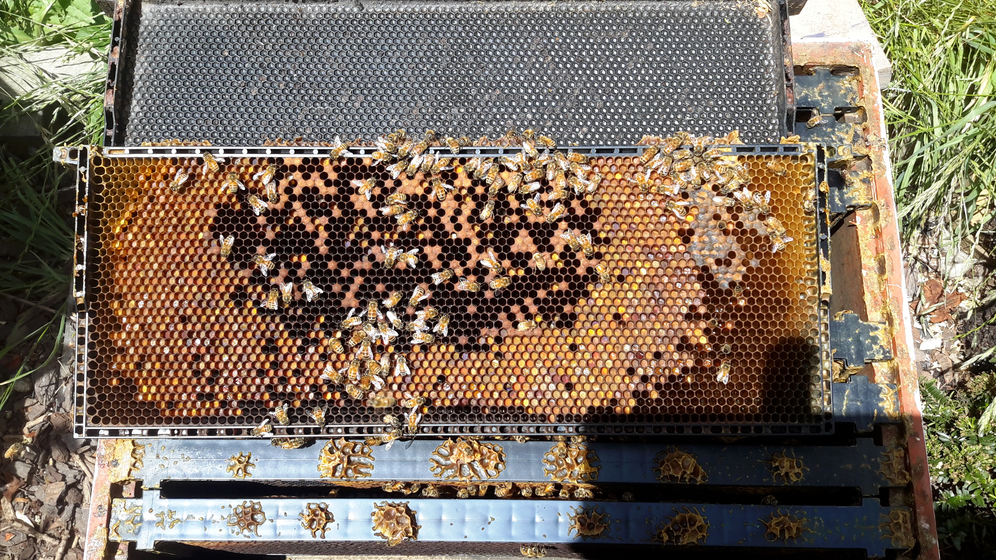 A frame from a beehive, showing the common radial layout in the way the bees use the frame. In the centre, where the bees can best maintain environmental conditions, are the brood cells containing baby bees. These cells are brown and black. The brown are capped cells with bees just about to emerge. The black cells are empty since the bees have recently emerged. The queen has just laid eggs (white dots) in many of these cells, to raise the next generation. The next ring outward is pollen. This is of various colours, typically orange in this case. These cells are not capped, so the hexagon structure is visible. Outside of that again is the honey storage area. This is most easily seen on the right side of the image. Some of these cells are still open, and the glistening of the honey is evident. Some bees have their heads down in the cells loading up on honey (this is at least partly a panic reaction to the smoke and opening of the hive). Some honey cells are closed over with wax (capped), and these cells have a characteristic variability of surface texture. As the bees grow in numbers they reallocate the cells to different uses. In the background is the plastic substrate, which is preformed with hexagons as a starting pattern..